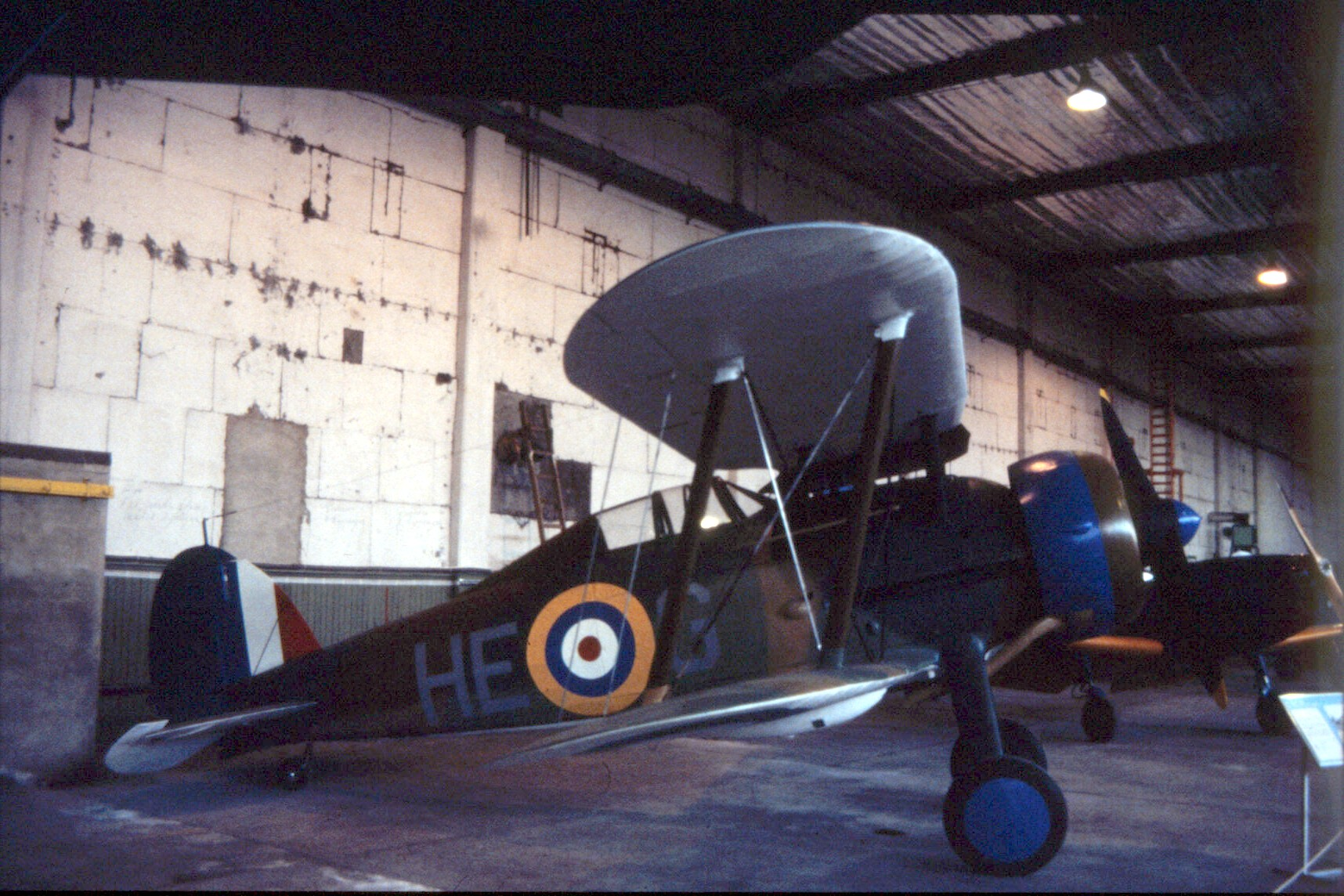 Gloster Gladiator in the old Flysamling in Hangar D.